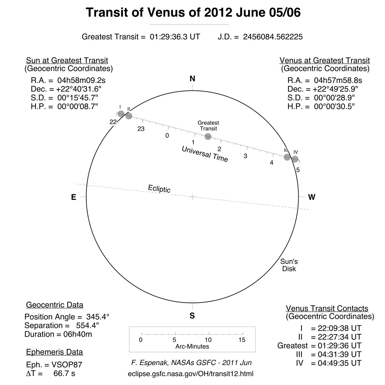 Path of Venus during its transit of the Sun in June 2012, with associated times and measures.